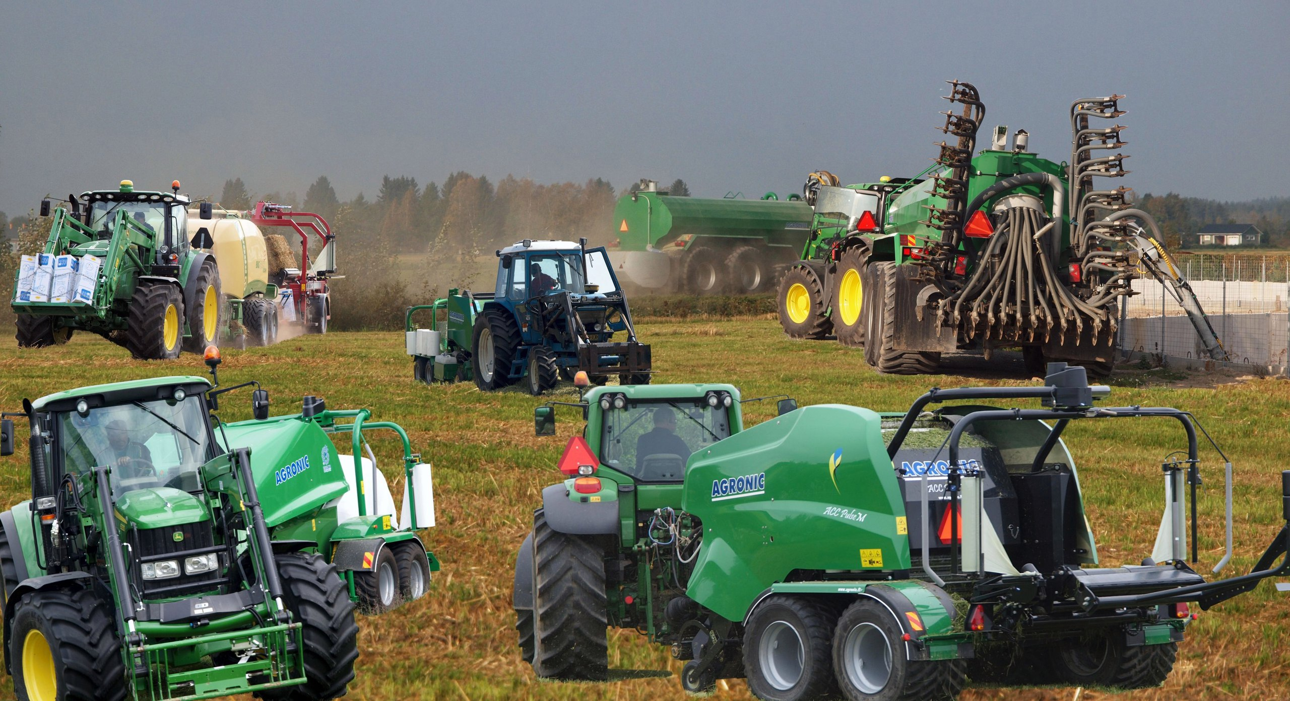 Agricultural machinery